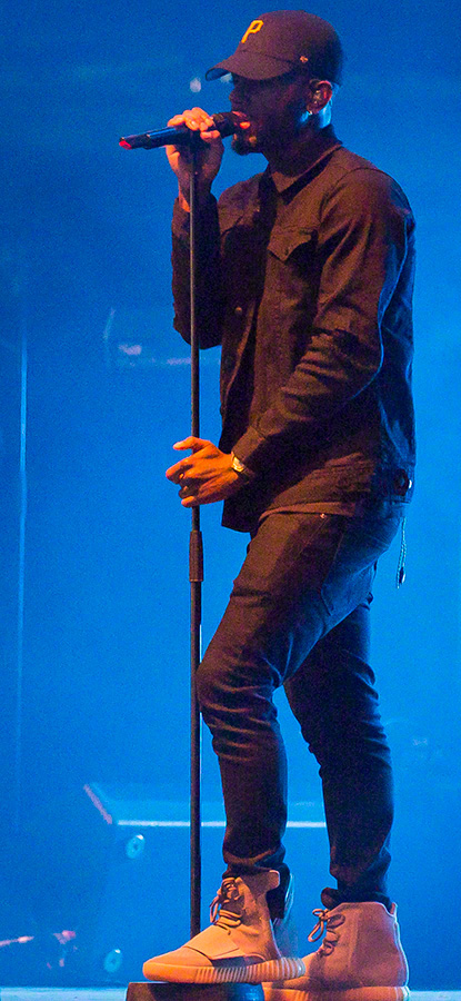 Bryson Tiller at the minor stage during Stavernfestivalen in Stavern on 09. July 2016. Lineup:Bryson Tiller (vocal)